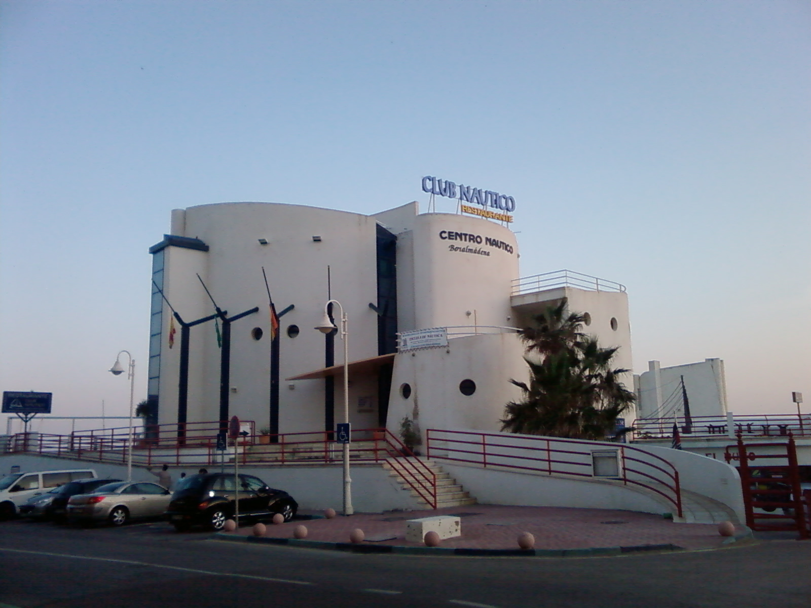 Yacht Club, Benalmádena, Málaga, Spain